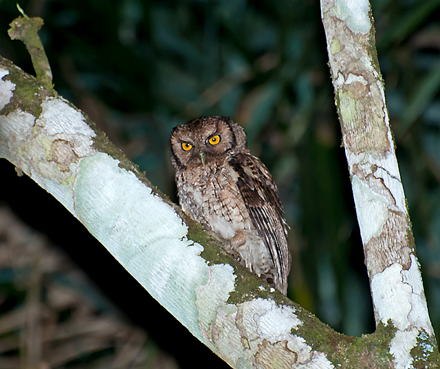 A Black-capped Screech Owl in Vale do Ribeira, Registro, São Paulo, Brazil.